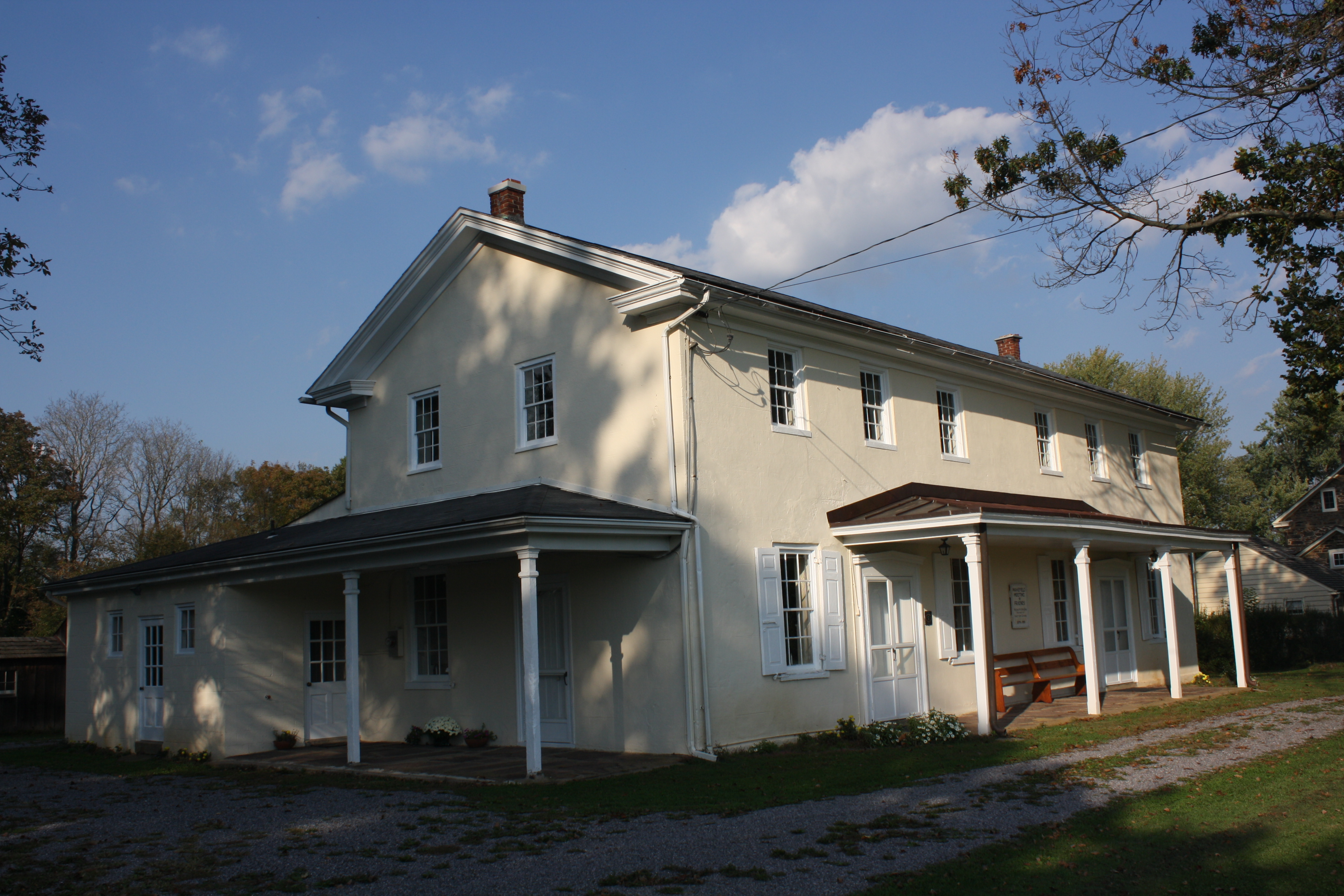 Makefield Meeting, (Makefield Monthly Meeting; Meeting House at Dolington) is a historic Quaker meeting house in Newtown, Bucks County, Pennsylvania. Object location40° 15′ 56.88″ N, 74° 53′ 13.92″ W